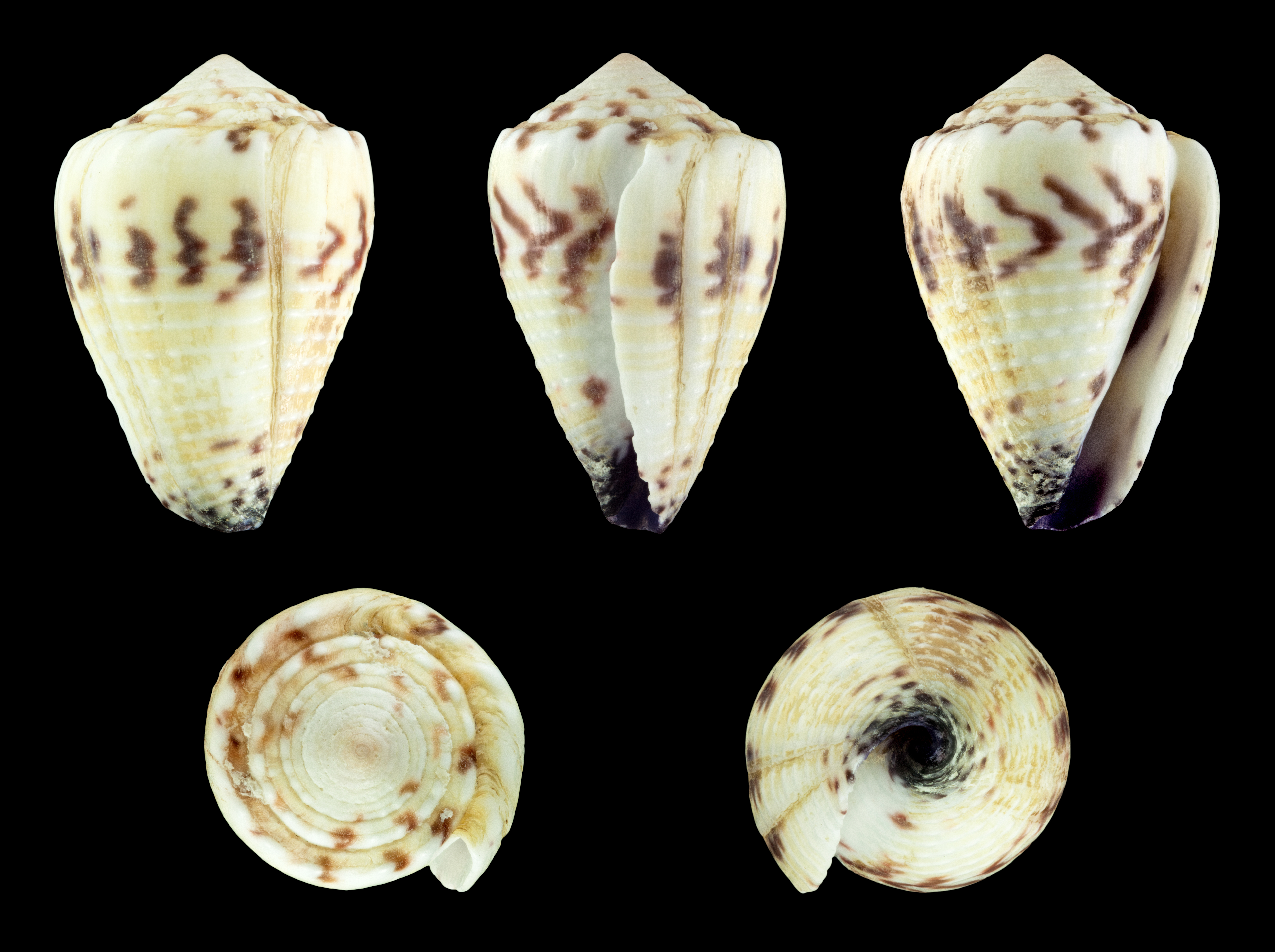 Conus sponsalis Hwass in Bruguière, 1792, Marriage Cone; Length 2.3 cm; Originating from Japan; Shell of own collection, therefore not geocoded.